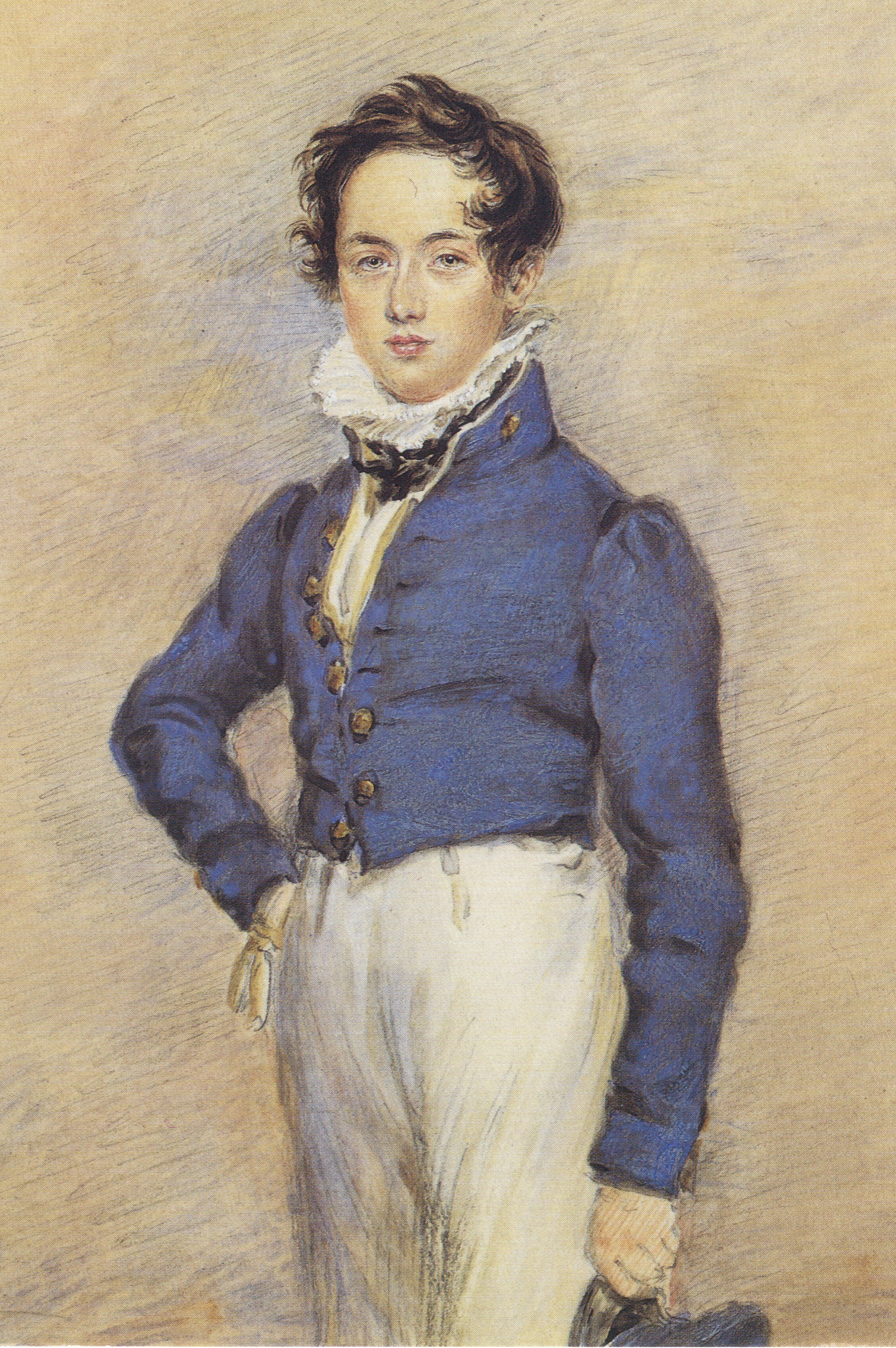 Portrait of William Sterndale Bennett (1816-1875)